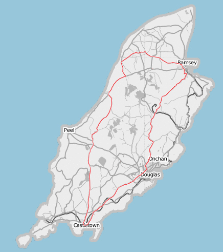 The Highroads (or Highlands) Course on the Isle of Man, used in 1904 and 1905 for the Gordon Bennett Trials and the 1905 Tourist Trophy race.